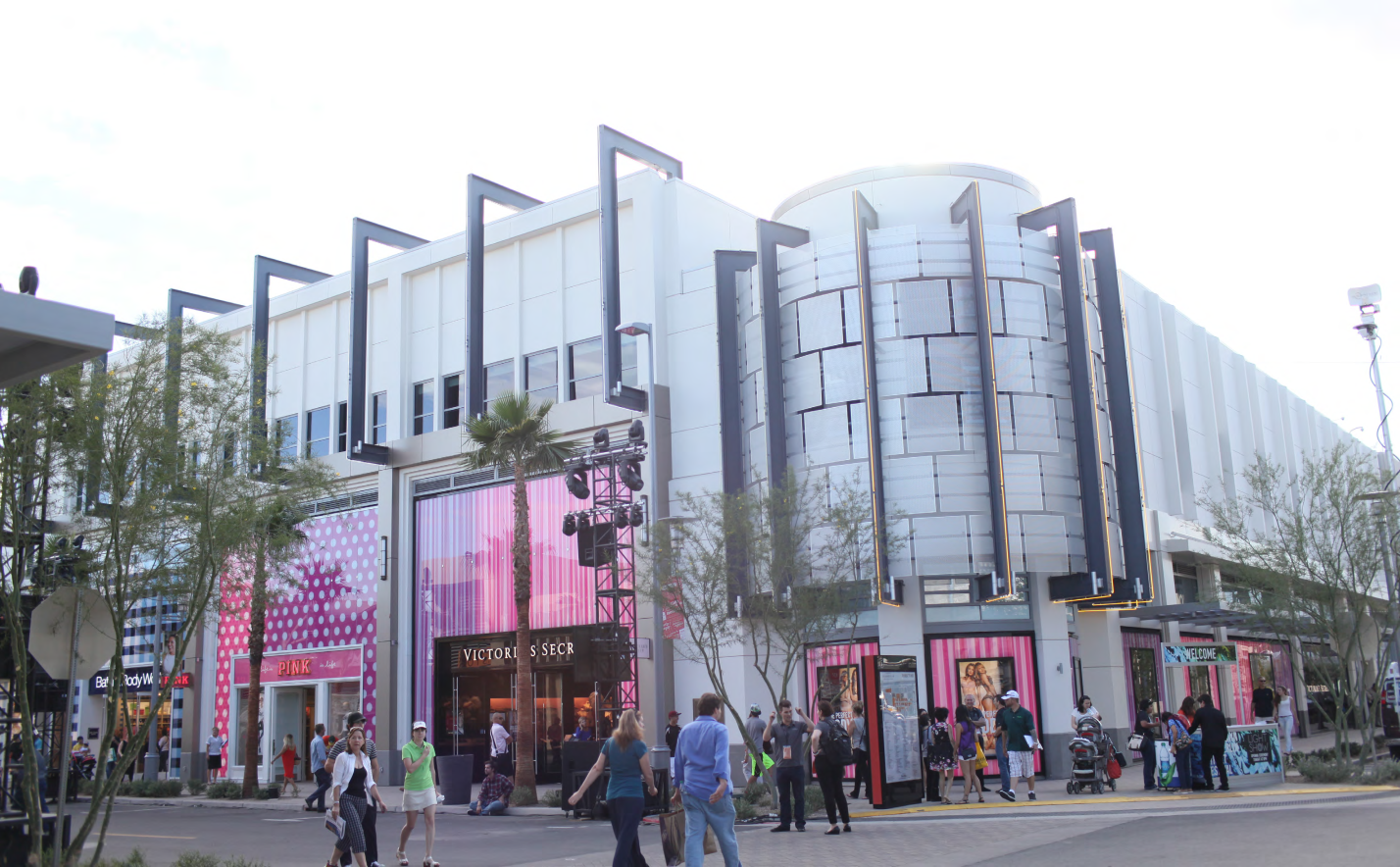 Downtown Summerlin, Las Vegas, Nevada